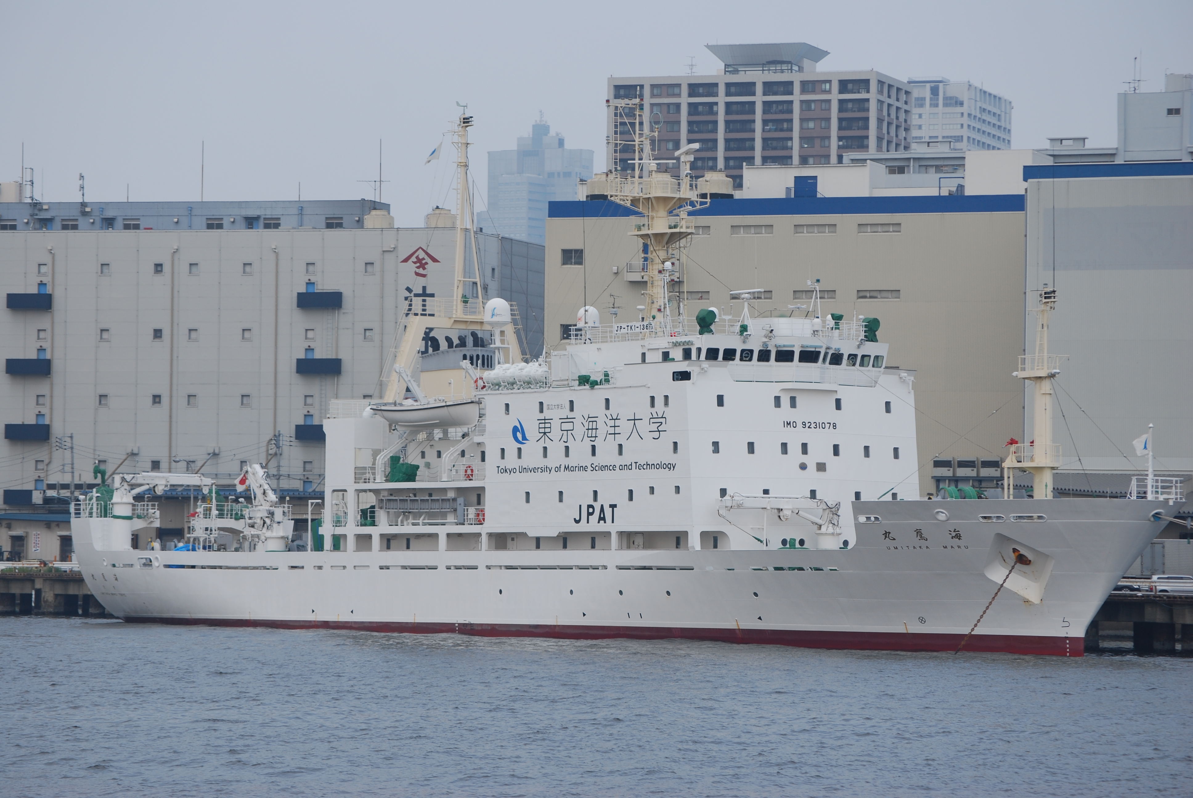 Umitaka-maru, Tokyo University of Marine Science and Technology, Minato-ward, Tokyo, Japan